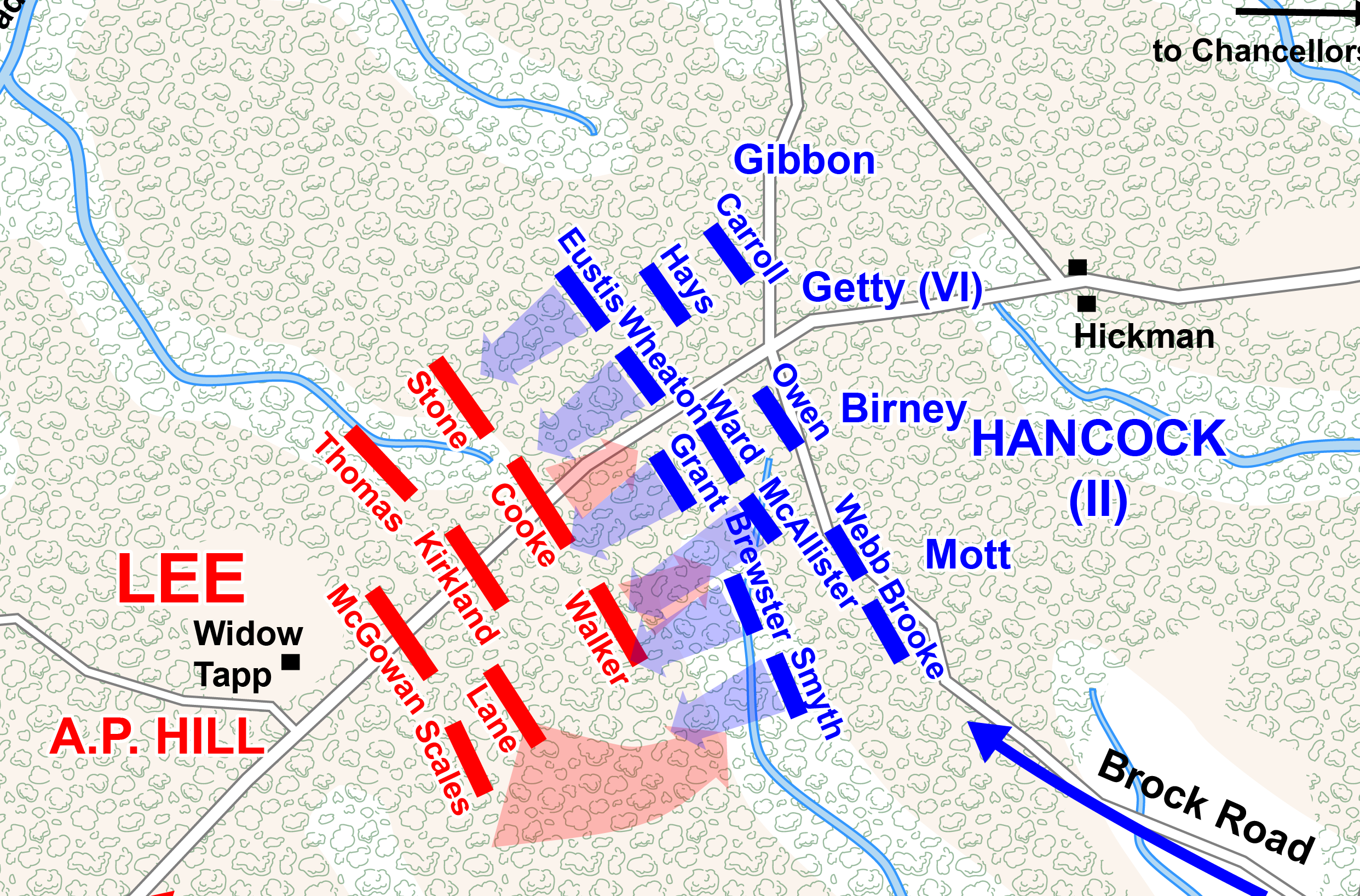 Map of a portion of the Battle of the Wilderness of the American Civil War.